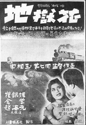 1958 Korean movie poster for 1958 Korean film A Flower in Hell (지옥화 Jiokhwa).